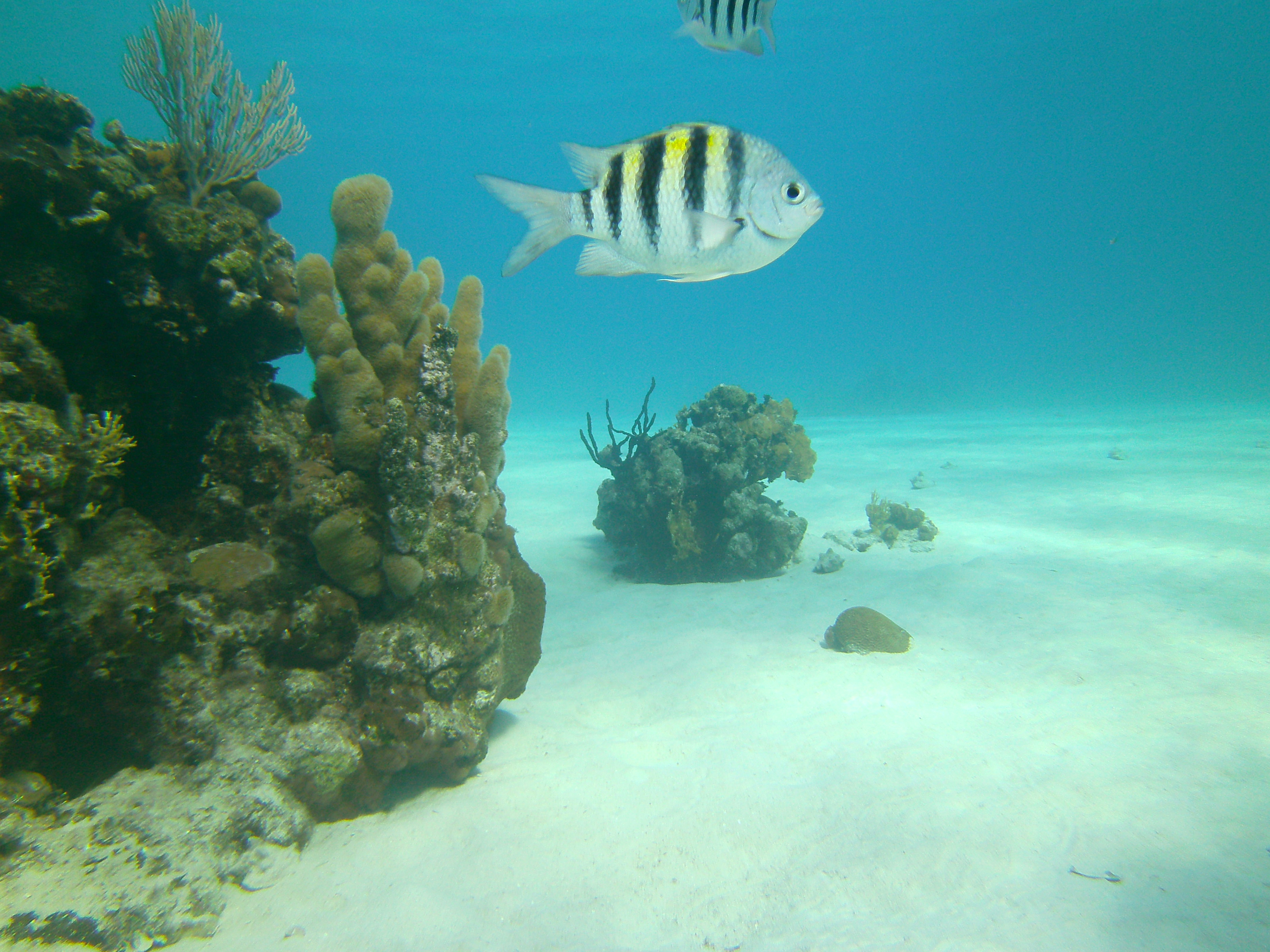 la: Abudefduf saxatilis en: Sergeant major nl: Sergeant-majoorvis pl: Garbik pasiasty pt: Castanheta-das-rochas photo taken in the Bay of Pigs near Playa Girón, Cuba